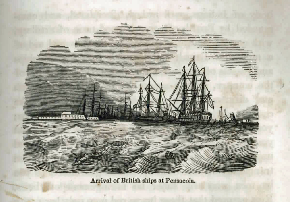 Arrival of British ships at Pensacola, Florida, in 1812.